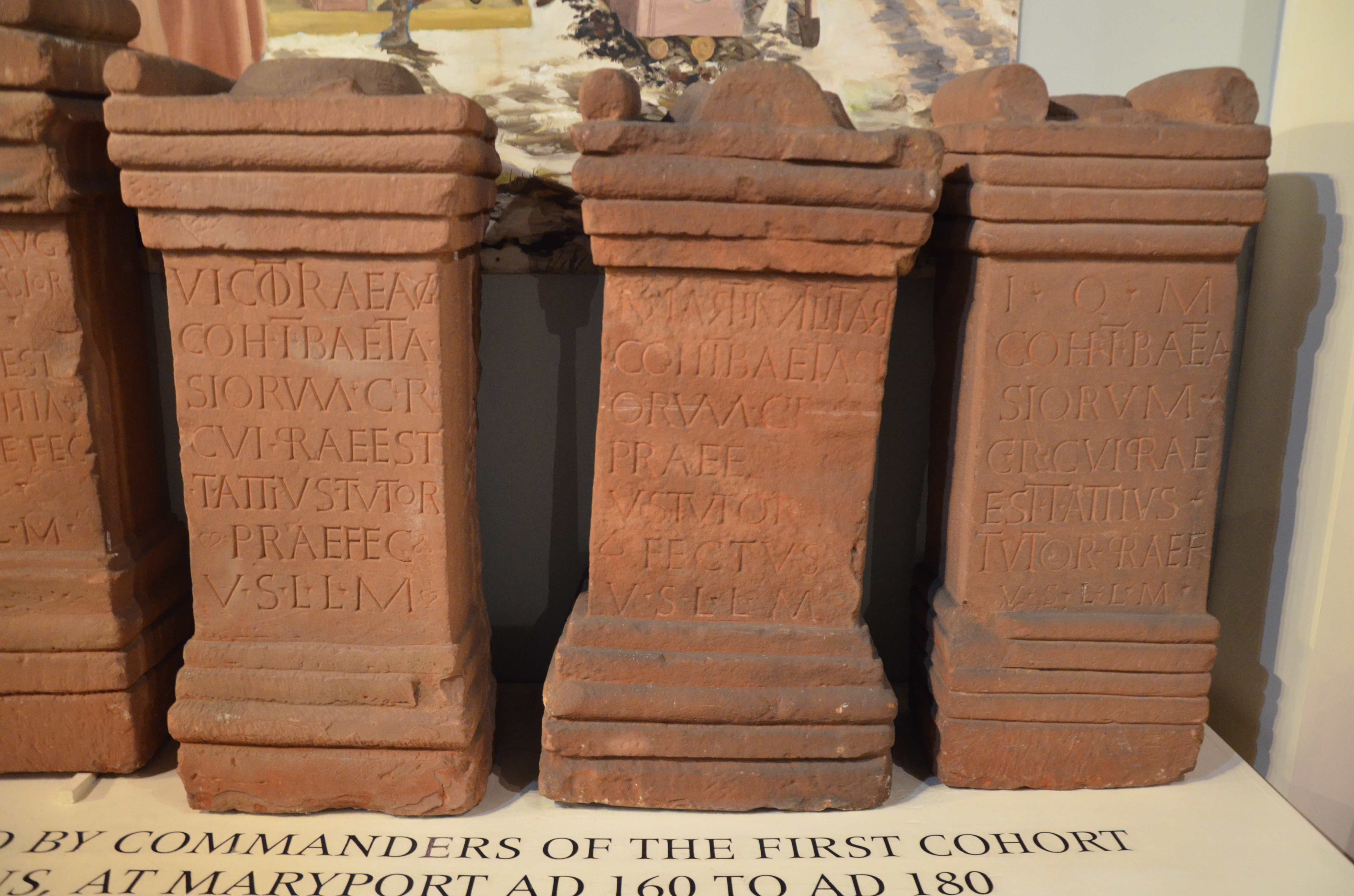 Senhouse Museum, Maryport, UK